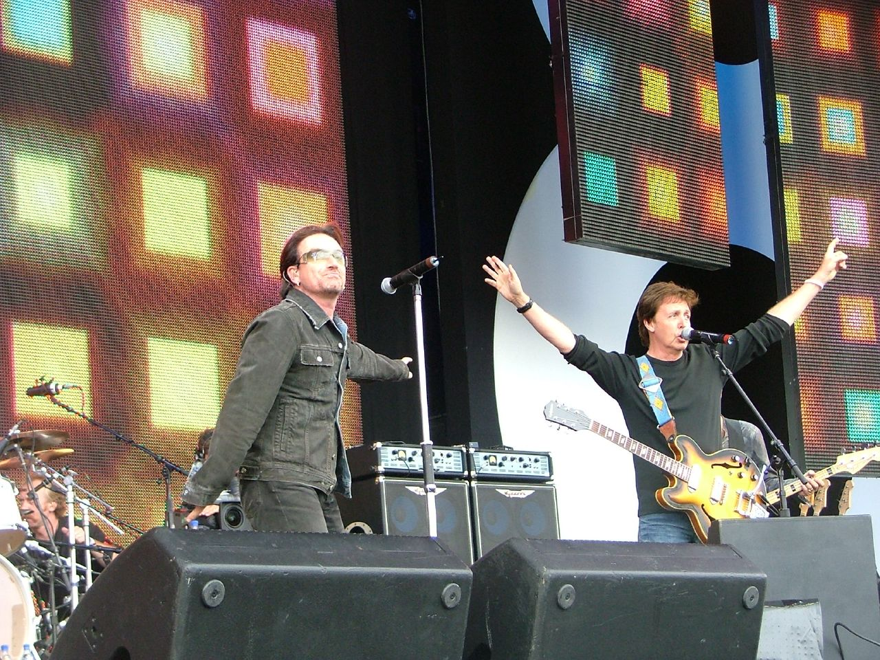 Bono from U2 with Paul McCartney at Live8.